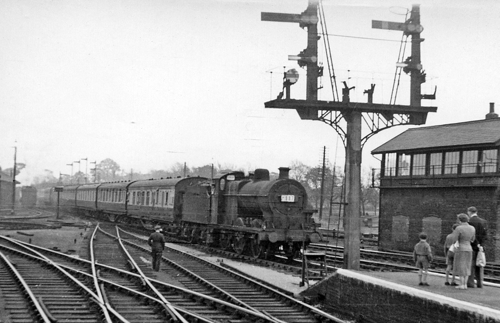 Bank Holiday excursion train entering Kings Lynn Station. View SE, towards Kings Lynn Junction. Kings Lynn station was/is a terminus, of three ex-Great Eastern lines: the main line from London via Cambridge and Ely, also March, of the line from Norwich via Wymondham and Dereham and of the line to Hunstanton; only the main line remains in 2010. The train here is a Midland 'interloper', and Excursion from Coalville, via Leicester, Peterborough and March, to Hunstanton. It is arriving headed by LMS 4F 0-6-0 No. 44273 and was taken on to Hunstanton after reversal by another 4F 0-6-0 'interloper'.